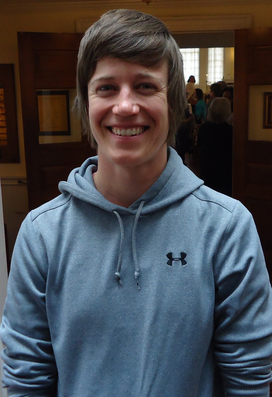 American womens rugby player Valerie Griffeth.